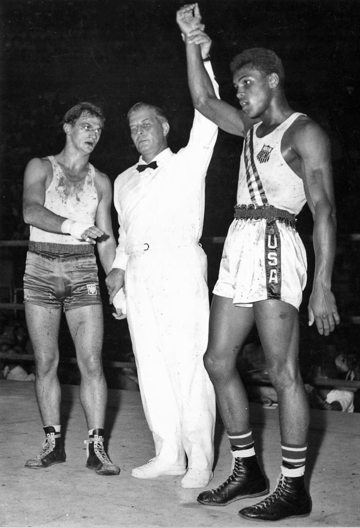 Zbigniew Pietrzykowski (left) and Muhammad Ali at the Rome Olympics in 1960